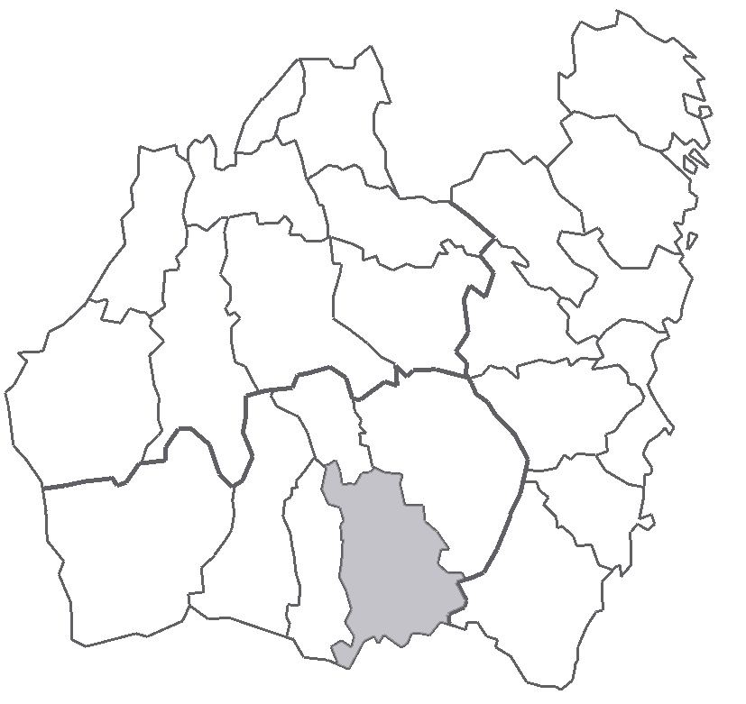 Map describing the location of Konga Hundred in the province of Småland, Sweden.